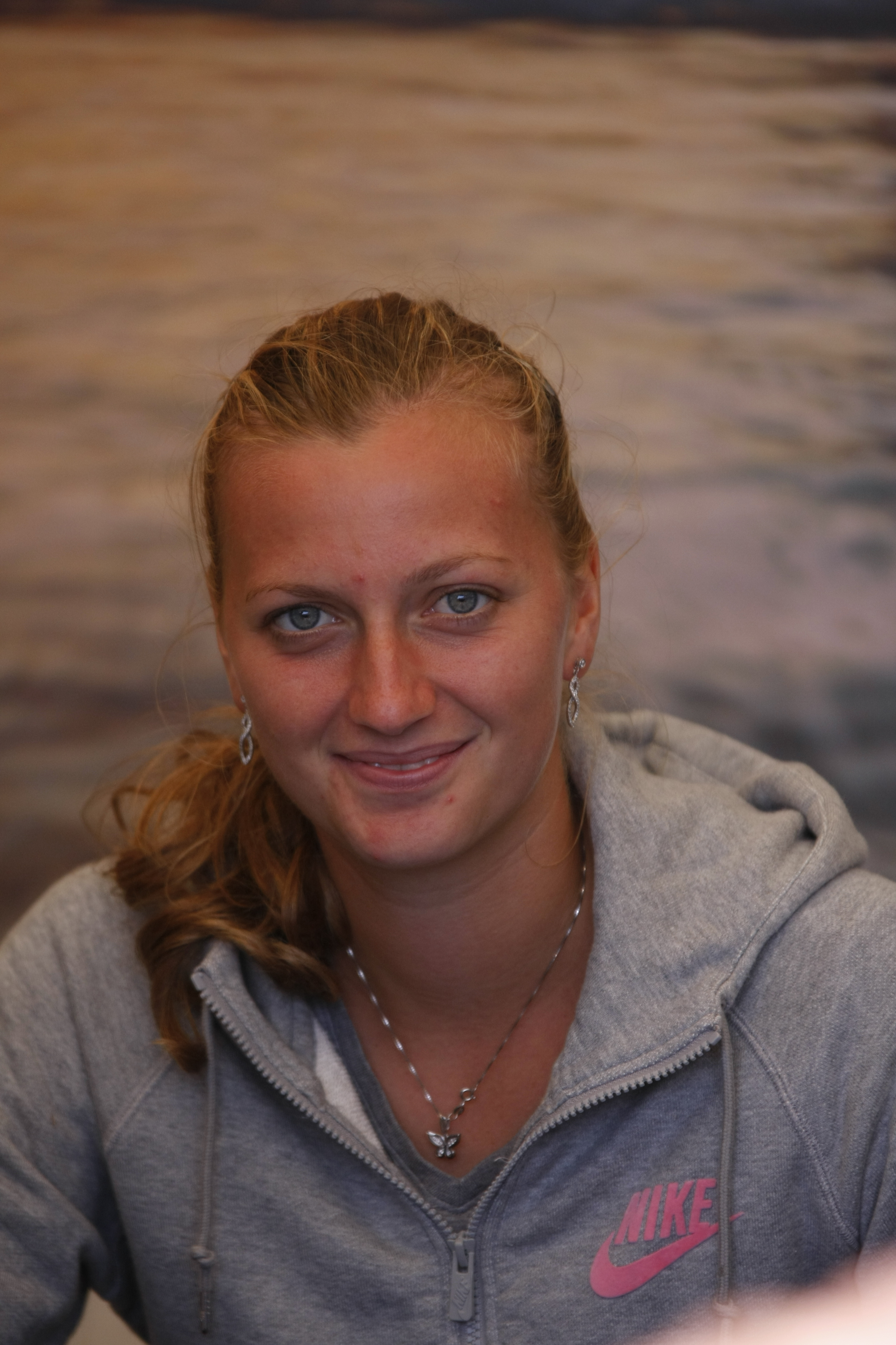 Aegon International Tennis, Eastbourne, June 2013